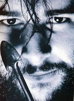 Portrait of Trevor Miller photographed by Stephanie Rushton at David Bailey's studio in London, circa 1989.